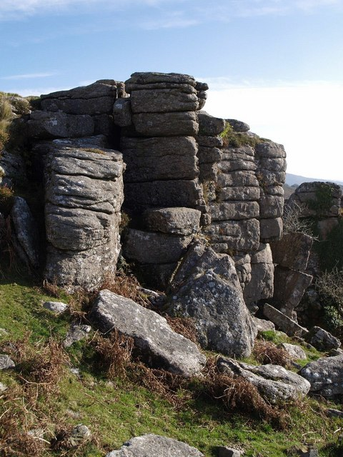 Bench Tor. This impressive wall of granite can be seen in 411263 and 596595.